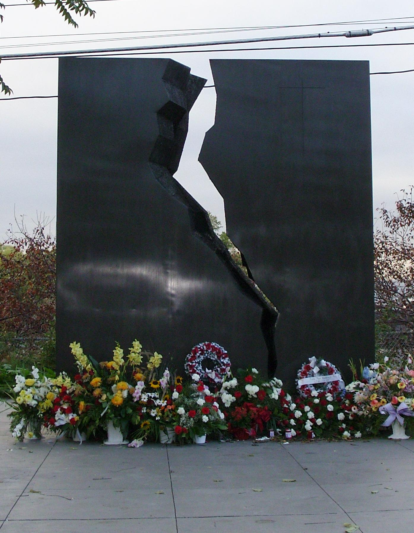 Photo of Katyn Memorial, Toronto, Ontario, Canada